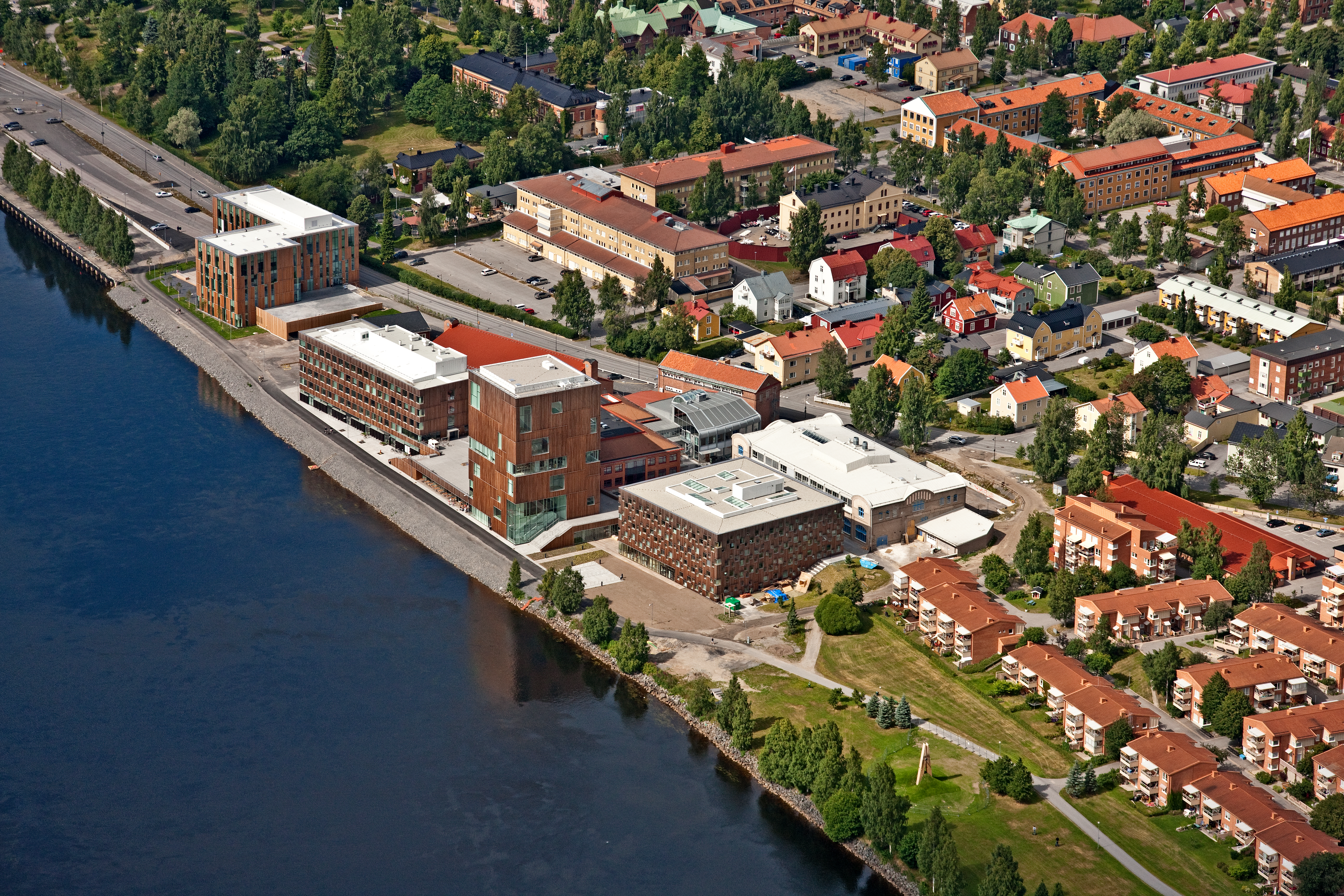 Aerial view of Umeå Arts Campus